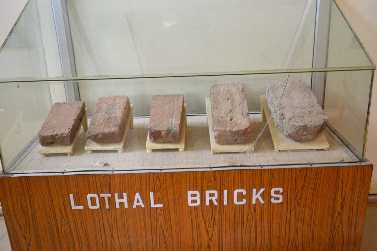 Ancient site at Lothal